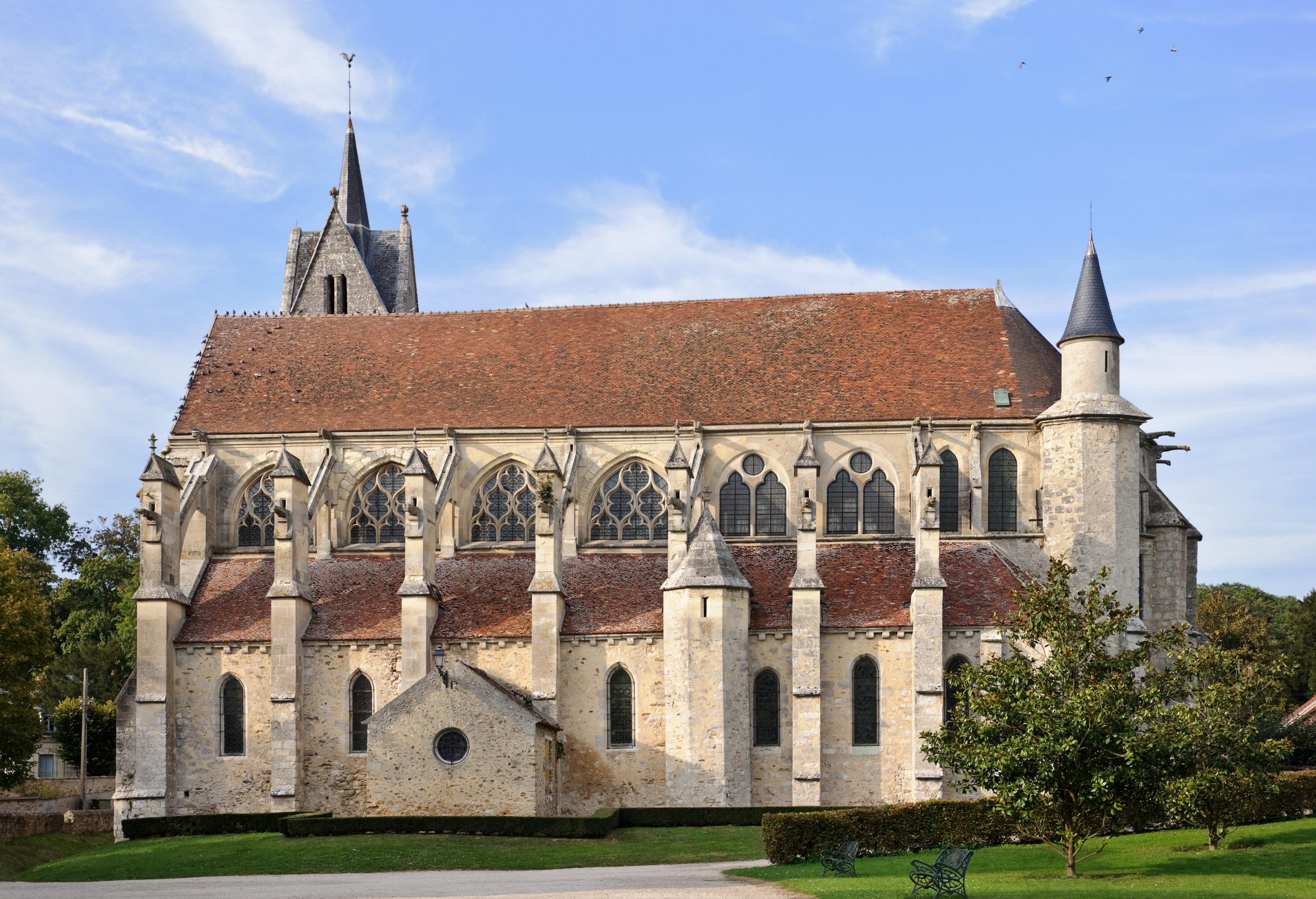 The collegiate church of Notre-Dame de l’Assomption ('Our Lady of the Assumption') in Crécy-la-Chapelle (Seine-et-Marne, France): the south side.